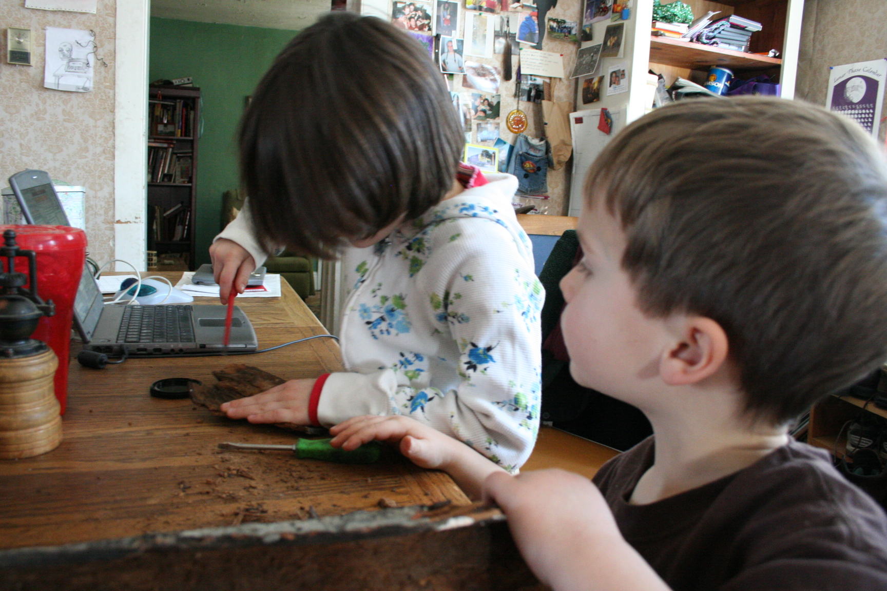 Example of unschooling (home-based, interesed-led, child-led form of education). These children are trying to dig out bugpoop (insects' excrements) out of tree bark.